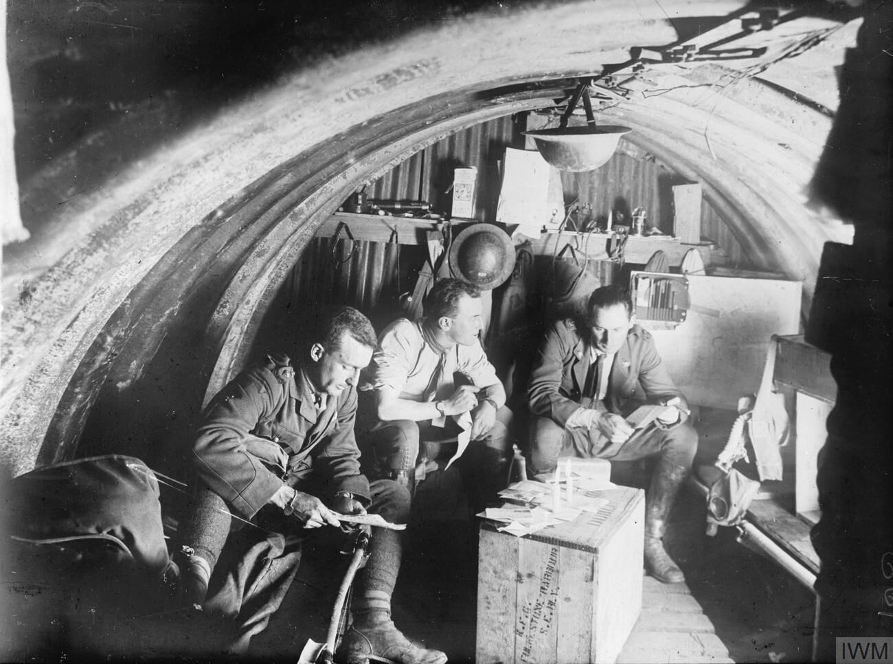 IWM caption : "THE THIRD BATTLE OF YPRES (PASSCHENDAELE) 31 JULY - 10 NOVEMBER 1917. Interior of a dugout occupied by officers of the 105th Howitzer battery of the 4th Brigade. Three officers are looking at papers in the light of two candles on an upturned box". Comment : This refers to the Australian 105th Howitzer Battery, part of the Australian 5th Field Artillery Brigade, attached to the Australian 2nd Division.